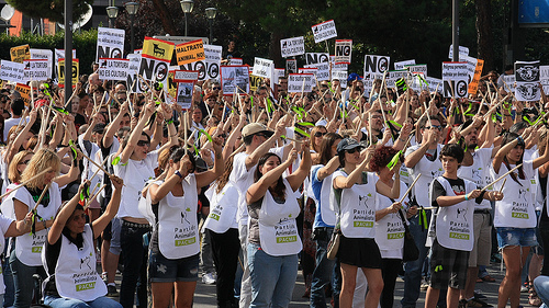 Demostration against "Toro de la Vega" of Tordesillas